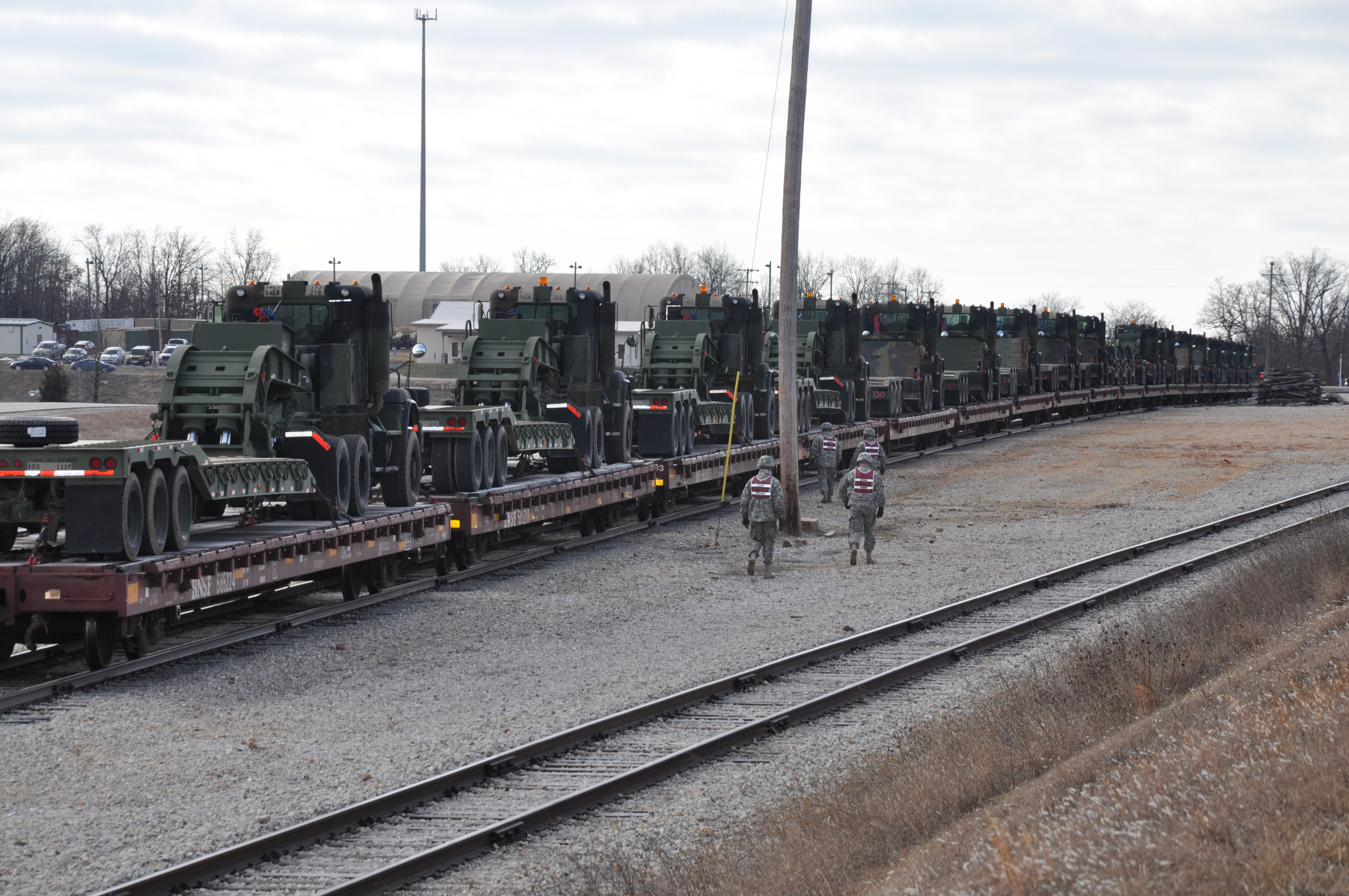 Soldiers with the 94th Engineer Battalion visually inspect the security of heavy-duty tractor trailers, which are loaded onto rail cars heading to 1st Infantry Division located at Fort Riley, Kan. The 103rd Engineer Company, part of the 94th Eng. Bn., 4th MEB, 1st ID, led the rail load efforts and recently inactivated.